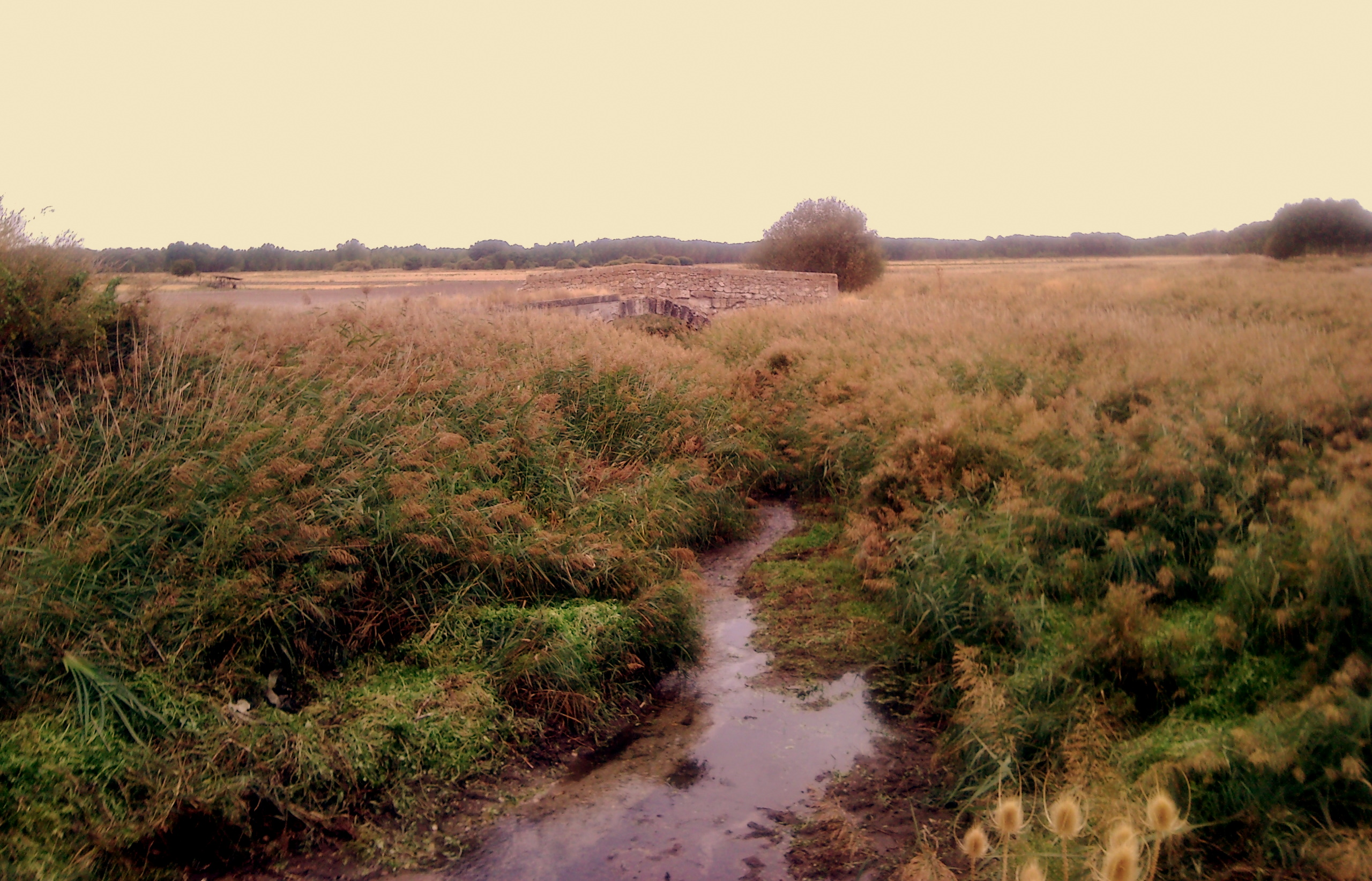 Destroyed bridge over Cerquilla river, near the Molino de Aldehuela, in Frumales, Segovia, Spain.